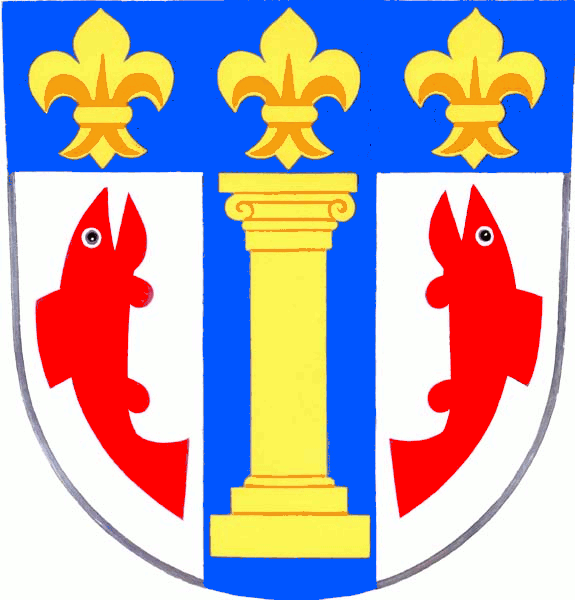 Municipal coat of arms of Sloup market town, Blansko District, Czech Republic.